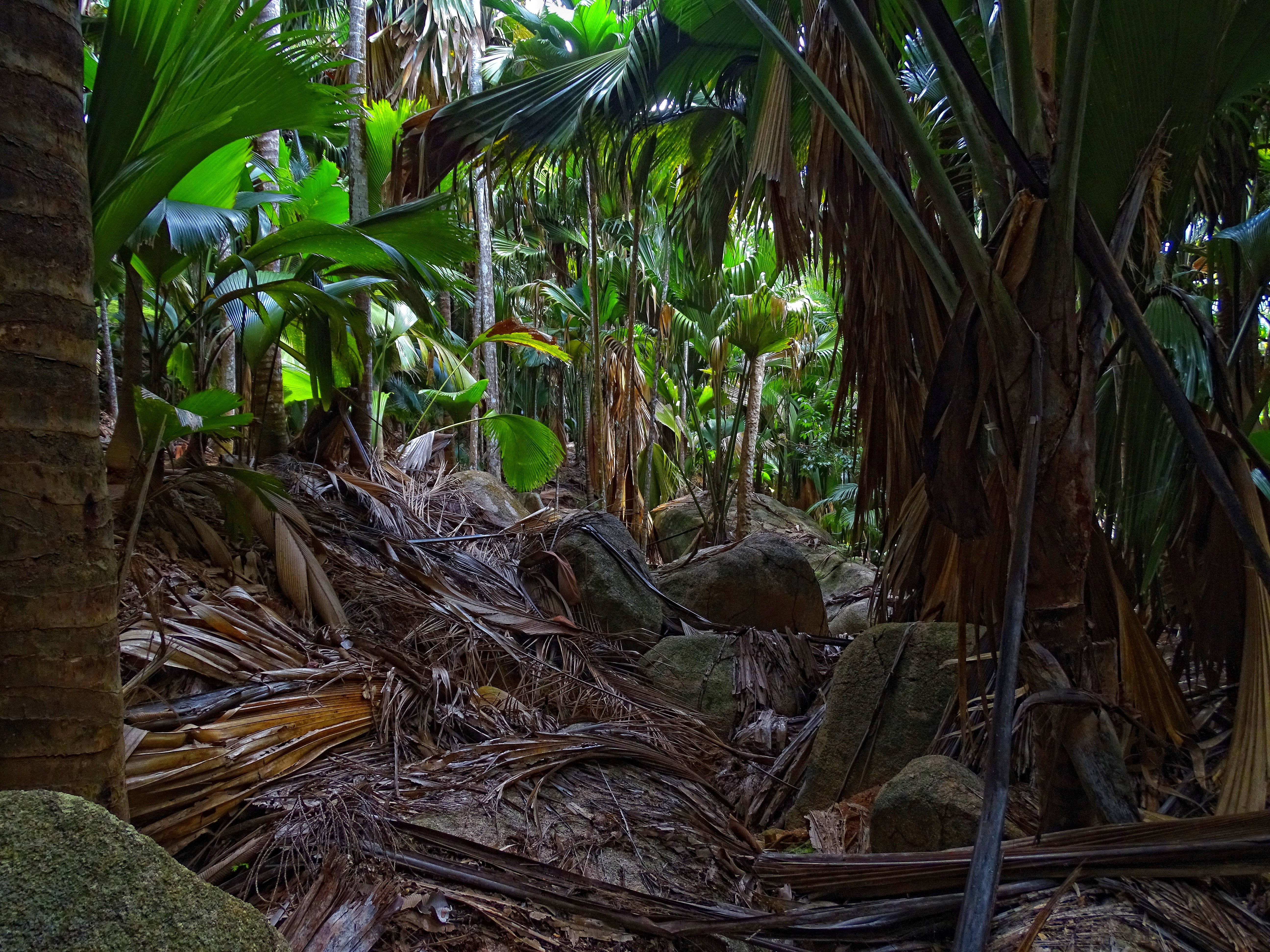 The jungle in Vallée de Mai on Praslin, Seychelles, gets very dense in many places.